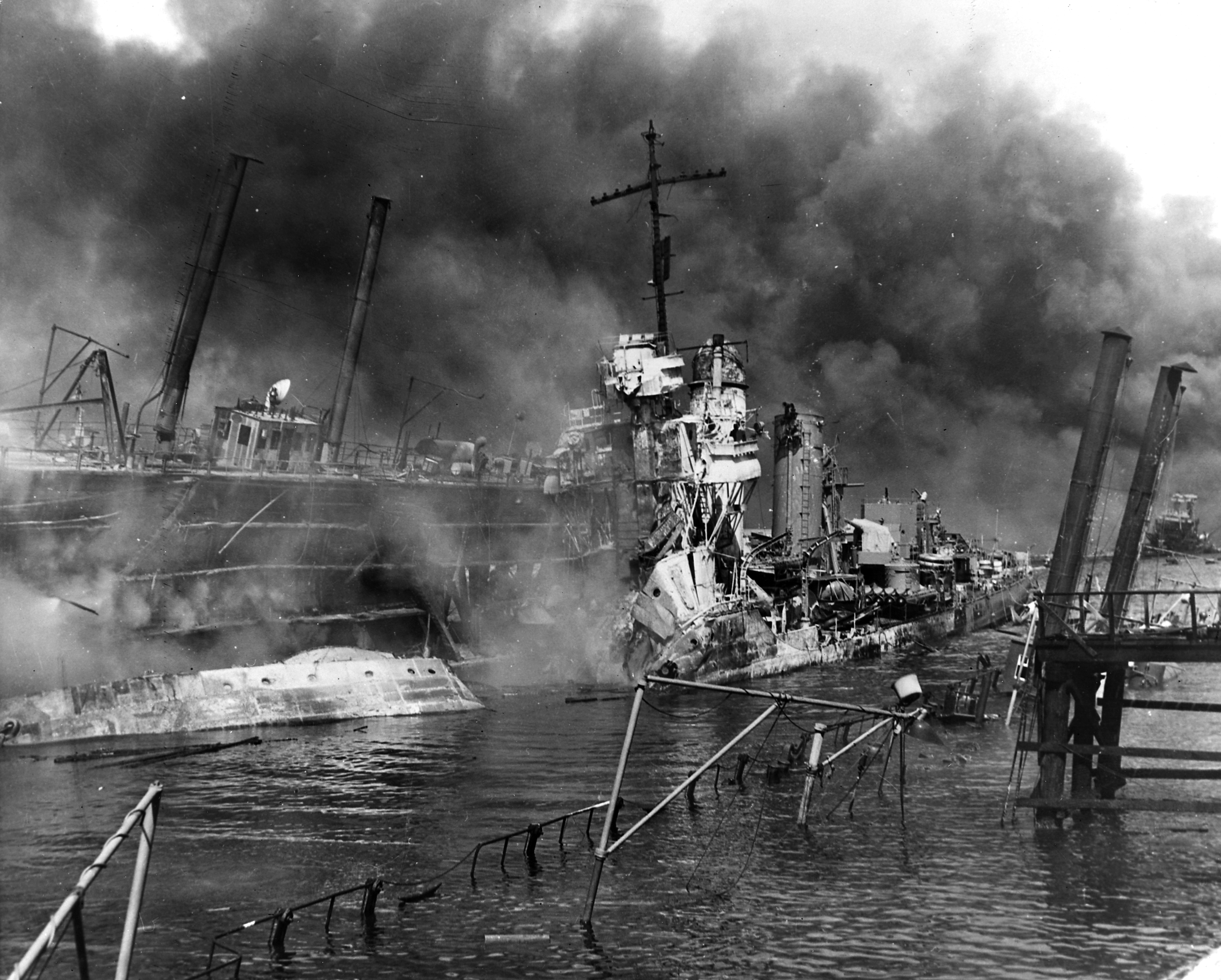 The U.S. Navy destroyer USS Shaw (DD-373) wrecked in floating drydock YFD-2 on 7 December 1941, with fires were nearly out but structure still smoking. Her bow had been blown off by the explosion of her forward magazines, after she was set afire by Japanese dive bombing attacks. In the right distance are the damaged and listing USS California (BB-44) and a dredge.